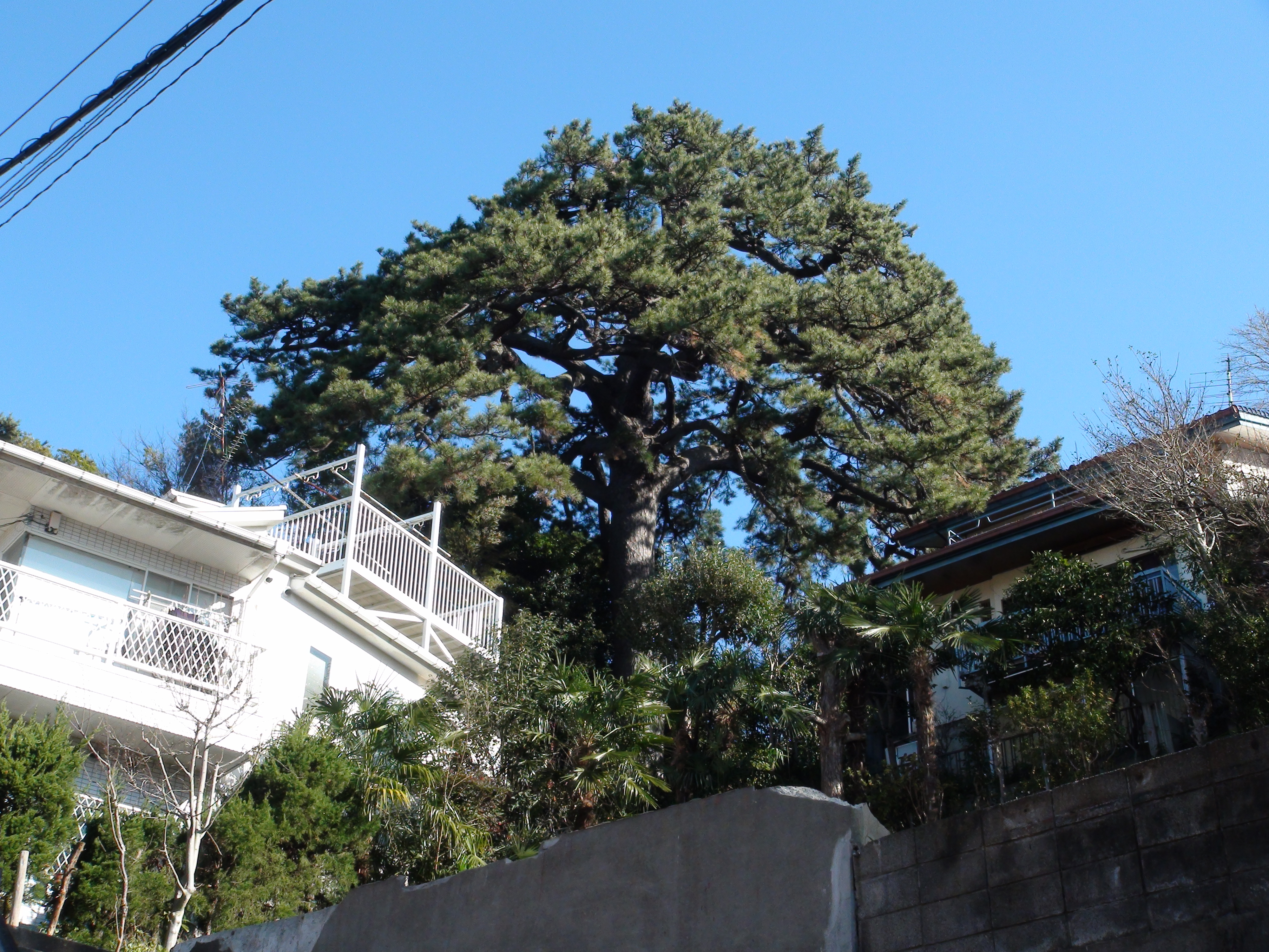 Akiba no Kuromatsu (Black Pine of Akiba) in Ota Ward, Tokyo, Japan